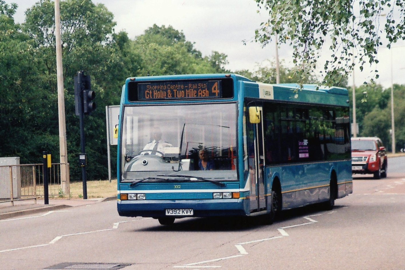 An Arriva Shires & Essex bus on route 4 in Bletchley, Buckinghamshire in July 2010. The bus is an Optare Excel 1, registration mark V392 KVY, fleet number 3002, acquired when Arriva took over MK Metro.